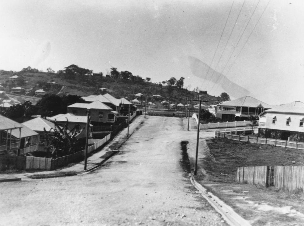 New homes in the Brisbane suburb of The Grange, 1929. Newly formed streets with concrete kerbs and telegraph poles leading to the hilly suburb of The Grange. The houses in the background are built on the sloping terrain.